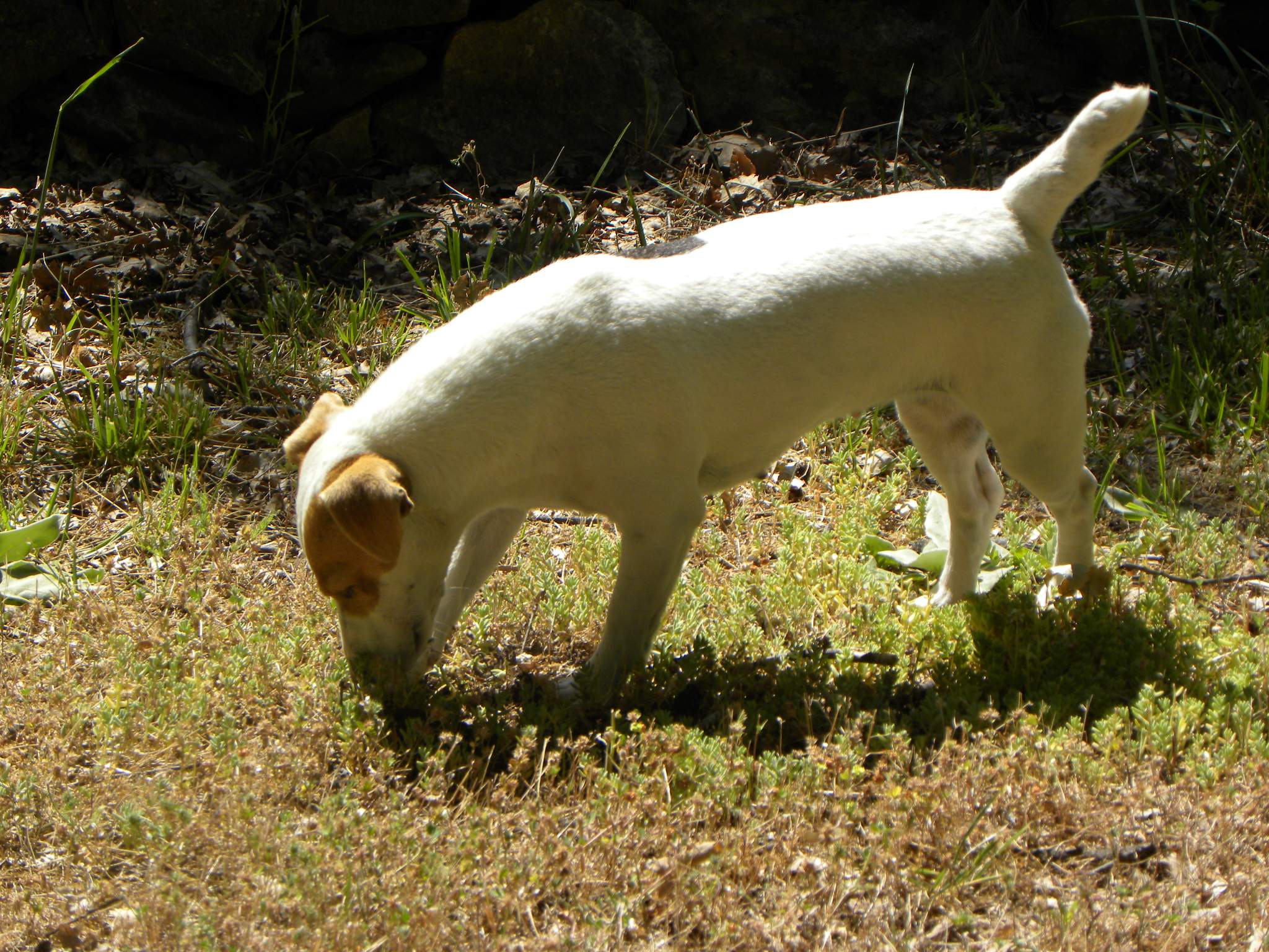 Dog smelling for truffles in Mons, Var.